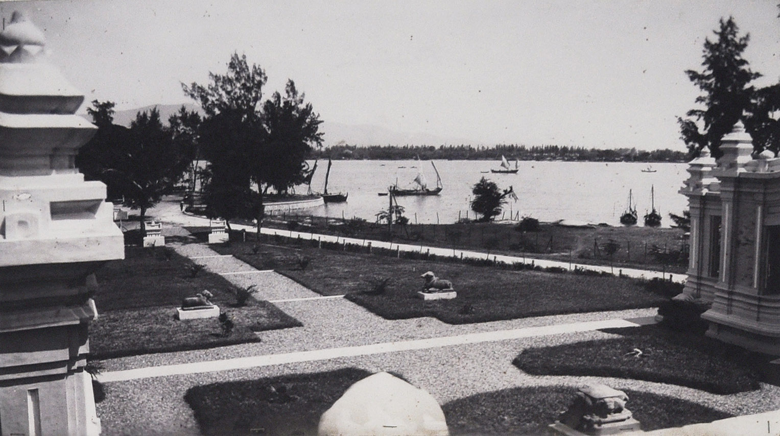 A view towards the Han River from the old Museum of Cham Sculpture site when adminstered by EFEO.